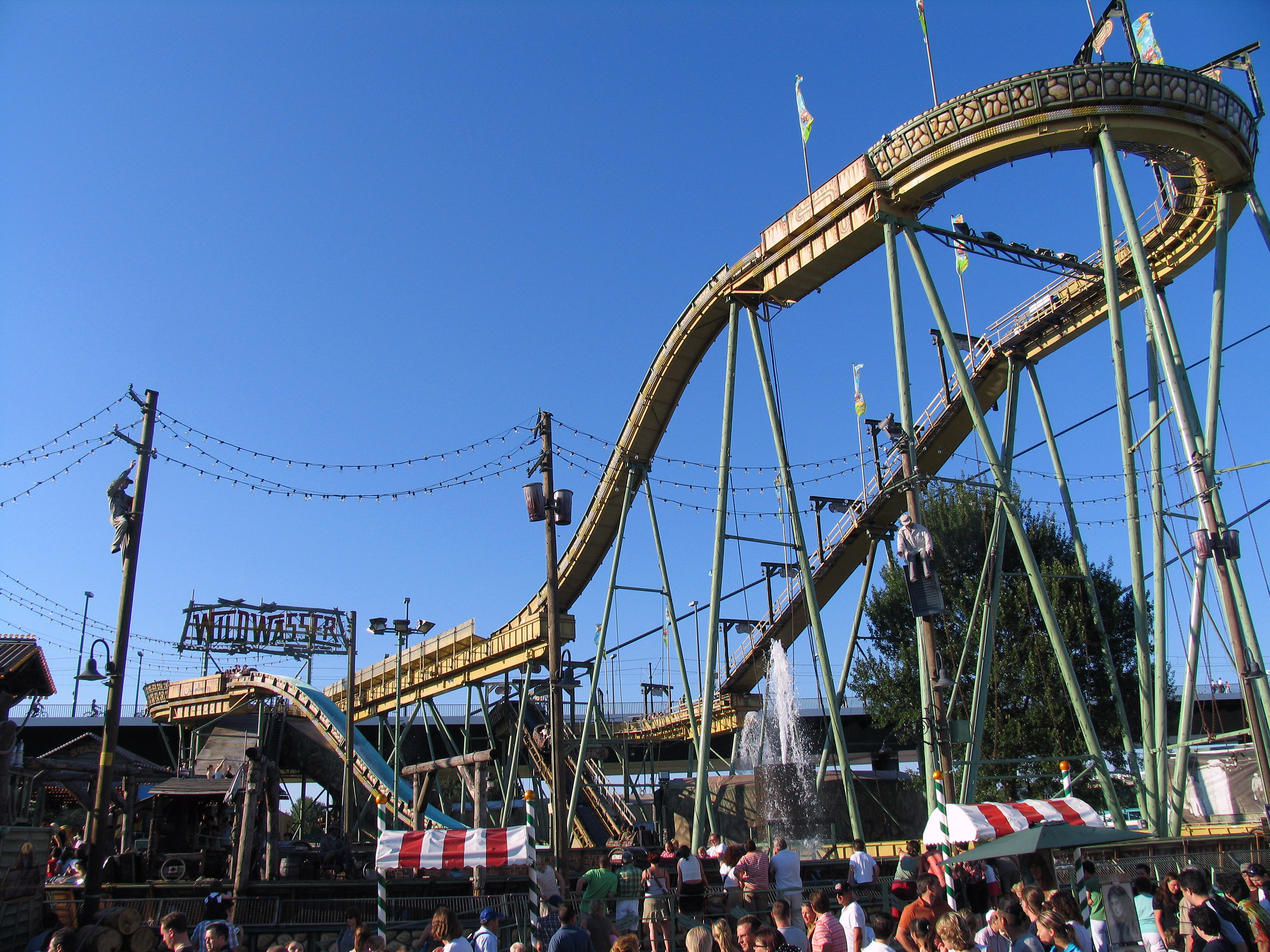 Wildwasser 3 by Joachim Löwenthal at Düsseldorf Fair